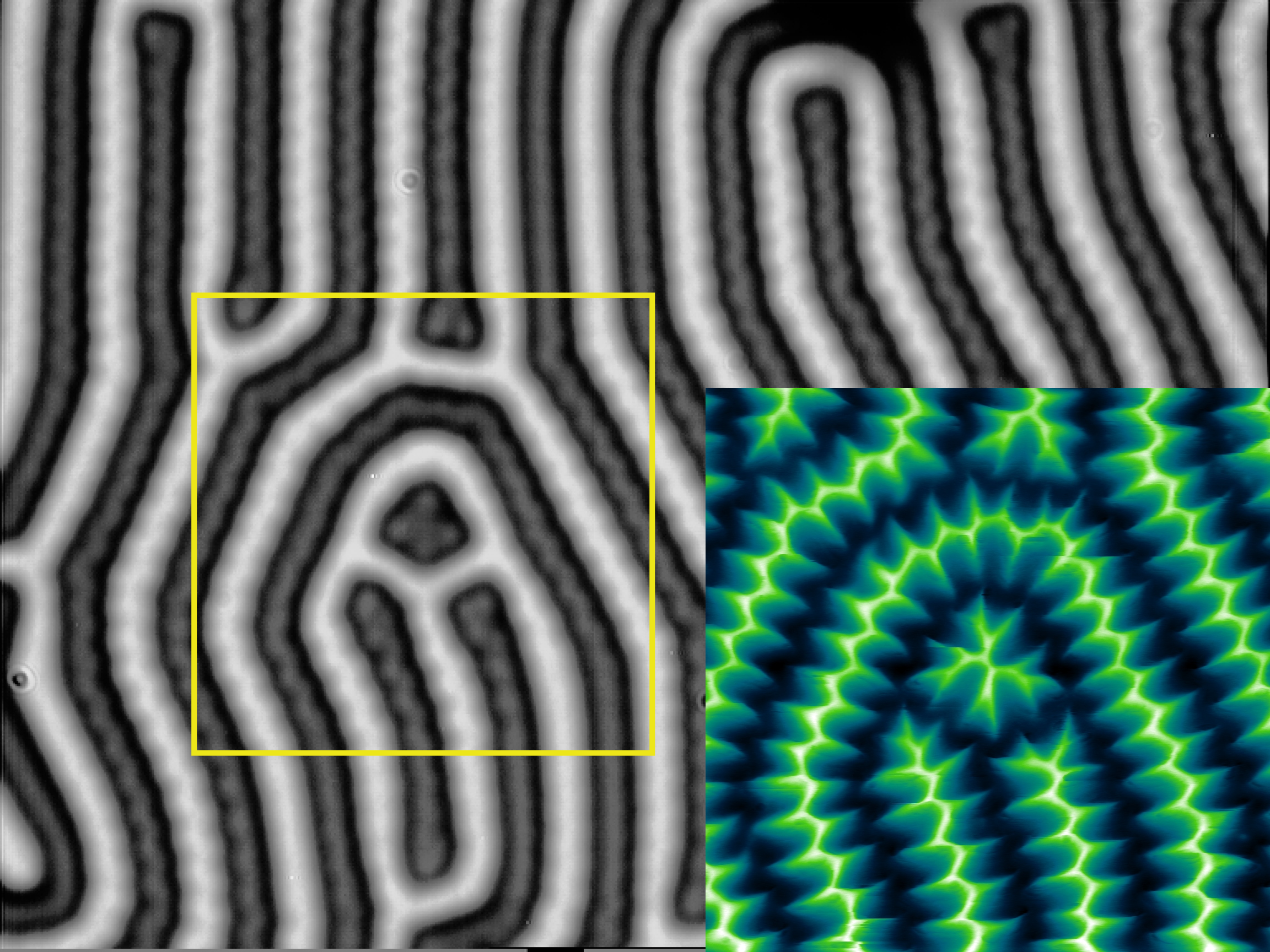 Two methods of imaging the magnetic domain structures: polarizing optical microscopy — Faraday effect and magnetic force microscopy (MFM). The sample is the film of composition (LuBi)3Fe5O12, thickness of 10 microns. The size of the magneto-optical image is 73 µm by 54 µm. The marked area is 26 µm x 26 µm, for which MFM image is represented in the inset. The data were obtained using an atomic force microscope SmartSPM, AIST-NT, equipped with high-resolution polarization optics and an additional illuminator allows observing a transmitted light optical image. Imaging techniques differ in both spatial resolution and imaging mechanism. Magneto-optical image depends on the structure of the magnetization distribution in the bulk of the film. MFM image reflects the stray field caused by the domains in the surface layer.